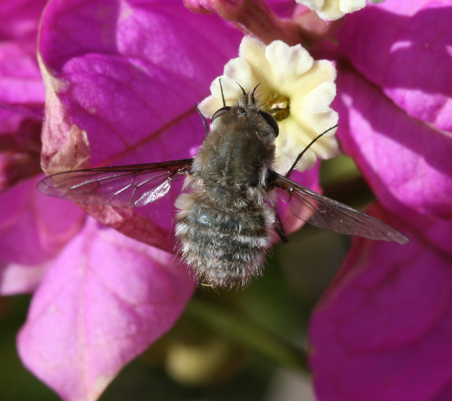 Dischistus sp. Playa Blanca, Lanzarote, Islas Canarias.